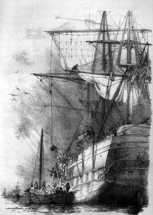 „Das Schiff“, Drawing by Carl Reinhardt in „Nach Amerika!“ Second Volume by Friedrich Gerstäcker